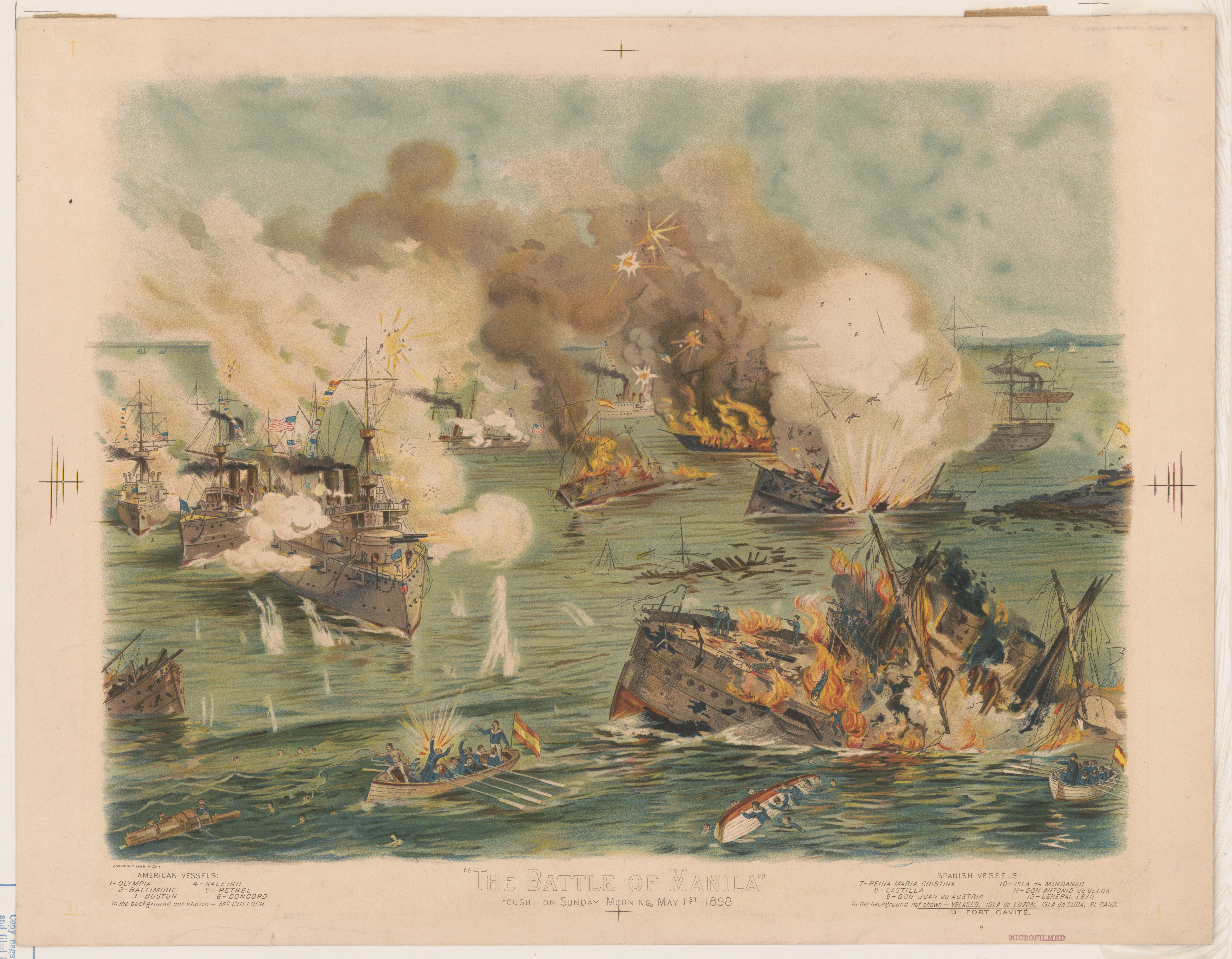 Title: The battle of Manila, fought on Sunday morning, May 1st 1898 Physical description: 1 print. Notes: This record contains unverified data from PGA shelflist card.; Associated name on shelflist card: Gray.